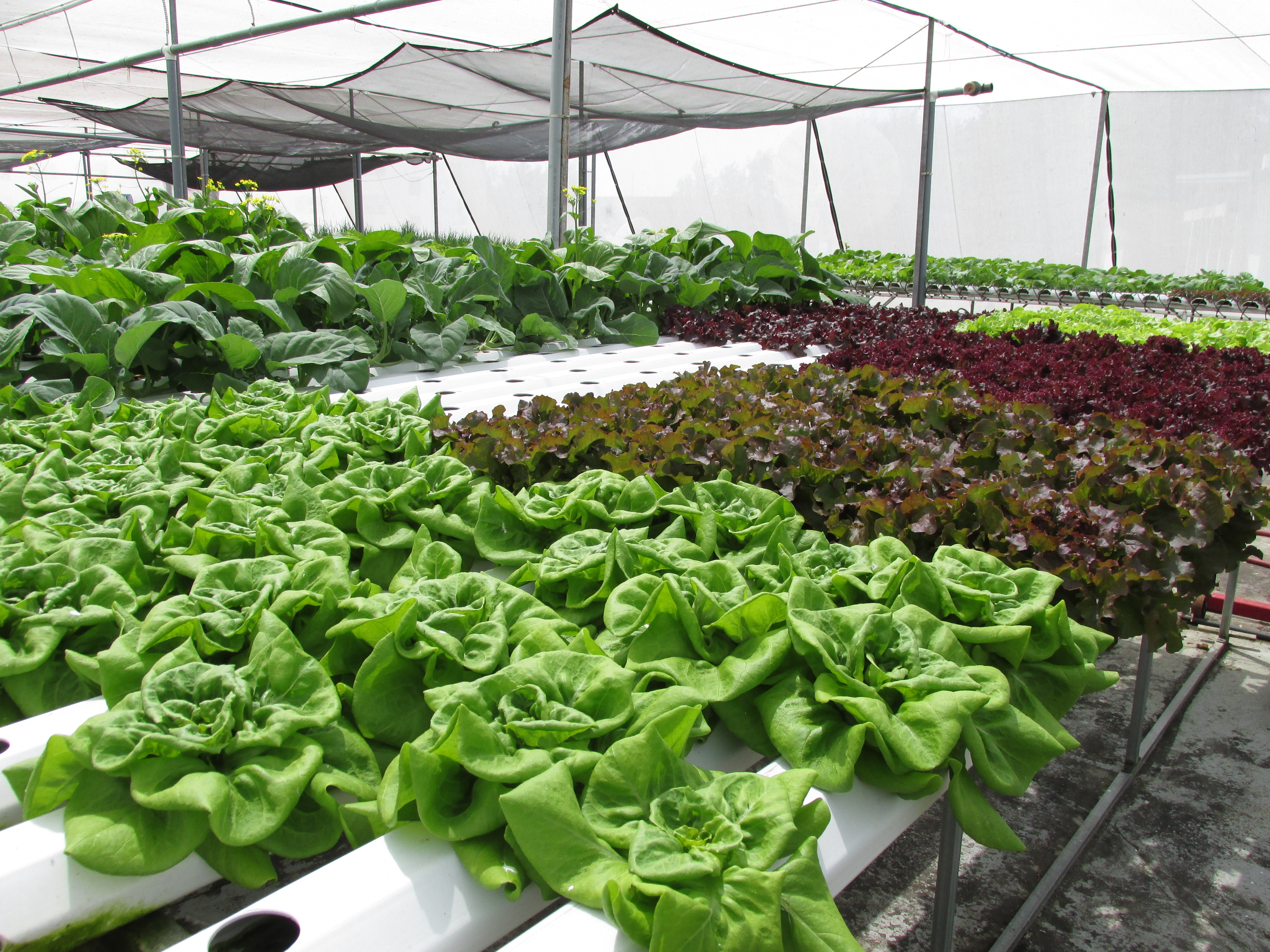 Lactuca sativa (Lettuce, prickly lettuce) Several varieties at Hydroponics Greenhouse Sand Island, Midway Atoll, Hawaii. March 26, 2015 #150326-1657 Image Use Policy Includes Lactuca serriola.